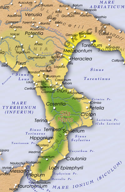 Magna Graecia, about 280 B.C.